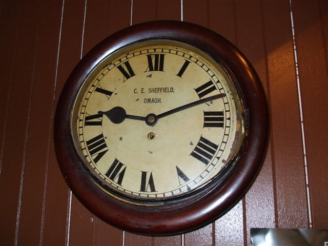 Clock, Sally's Omagh. This wind-up clock on display in Sallys in John Street 1057515 came from O'Doherty's shop in Mountjoy 51597. The inscription on the face reads, "C E Sheffield, Omagh".